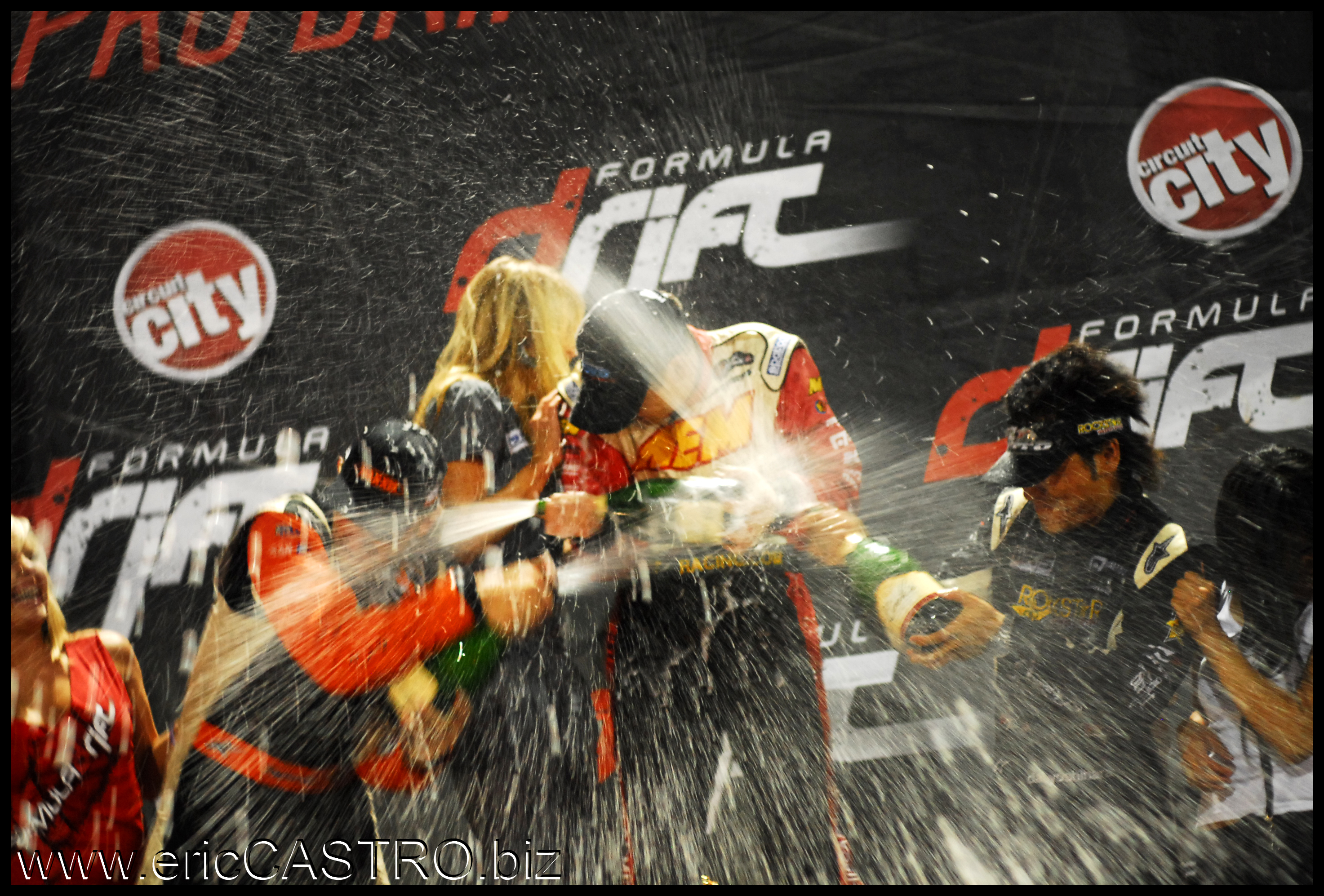 Bathing in sparkling wine is, Tanner Foust, Chris Forsberg and Daijiro Yoshihara, winners of the 2007 Formula D series.